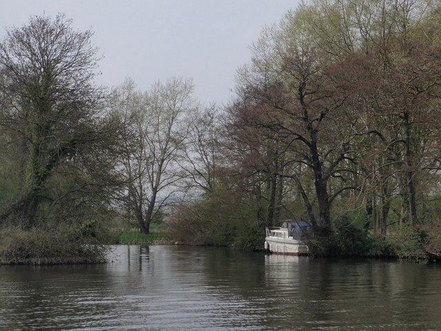 Thames near Sonning Hill A boat moored between an eyot and the north bank, seen from the Thames Path.